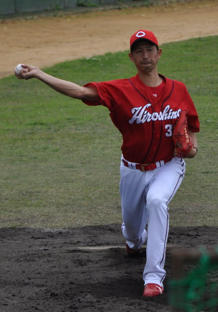 Tomohiro Umetsu, pitcher of the Hiroshima Toyo Carp, at Okinawa Municipal Baseball Stadium.